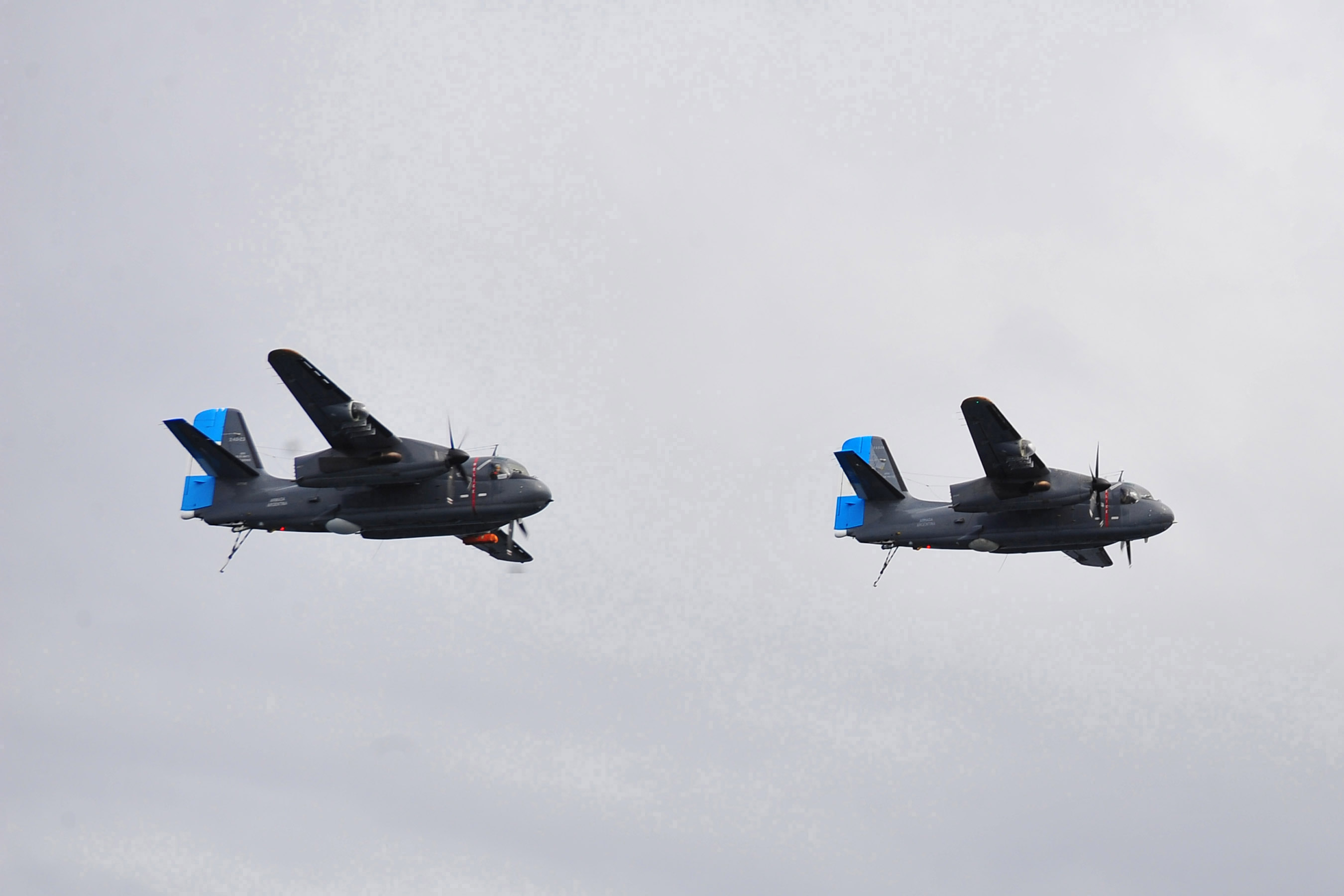 100310-N-2953W-960 ATLANTIC OCEAN (March 10, 2010) Argentine navy S-2T Turbo Trackers conduct a low-approach exercise over the aircraft carrier USS Carl Vinson (CVN 70) during exercise Southern Seas 2010.